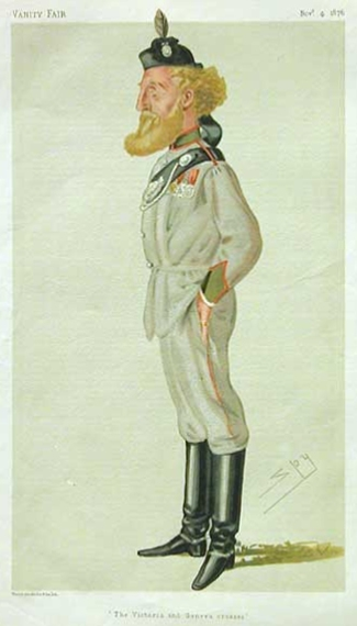 Caricature of Colonel Robert Loyd Lindsay VC MP (1832-1901). Caption read "The Victoria and Geneva crosses".